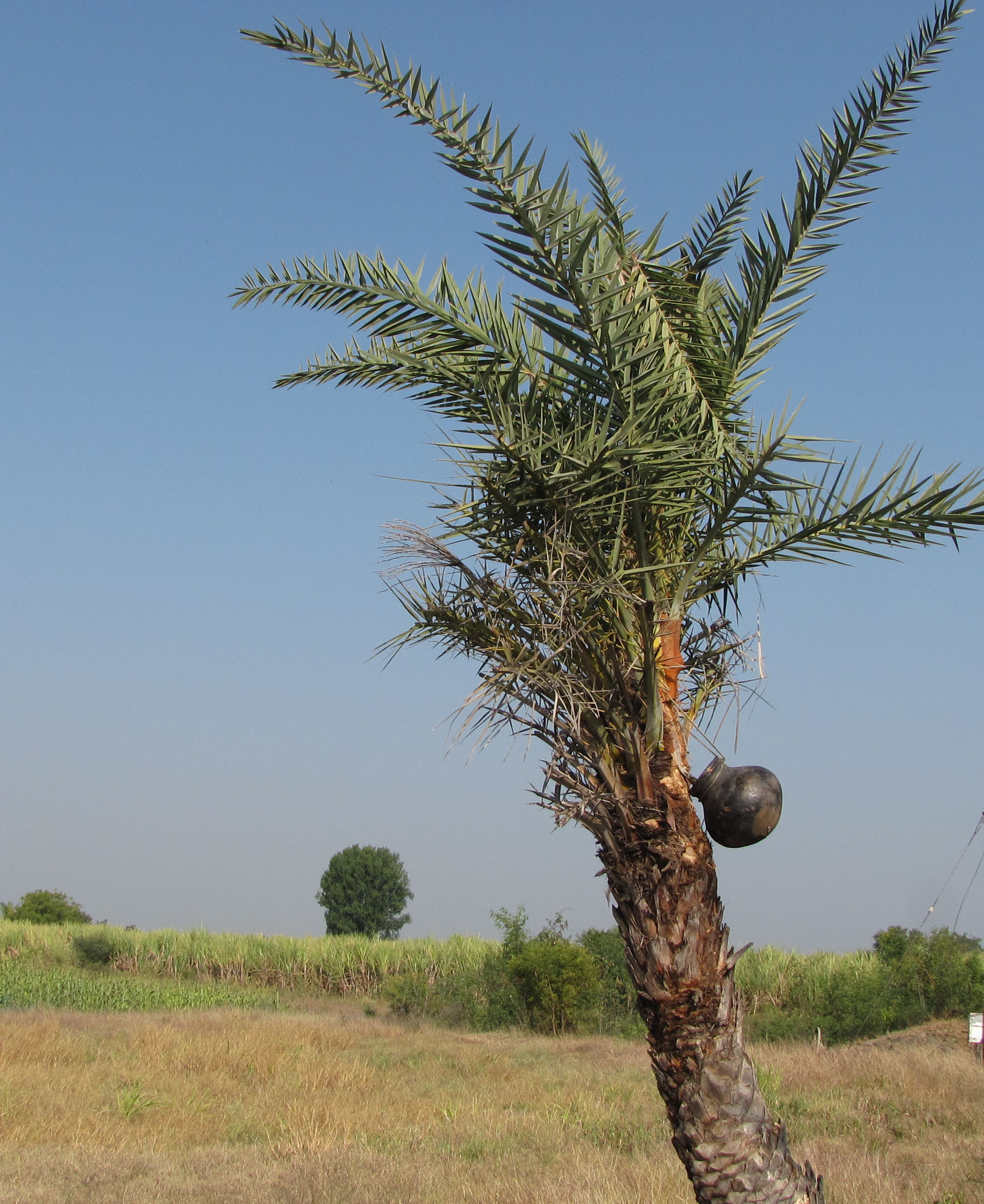 a Phoenix sylvestris tree with a container to collect sweet sap